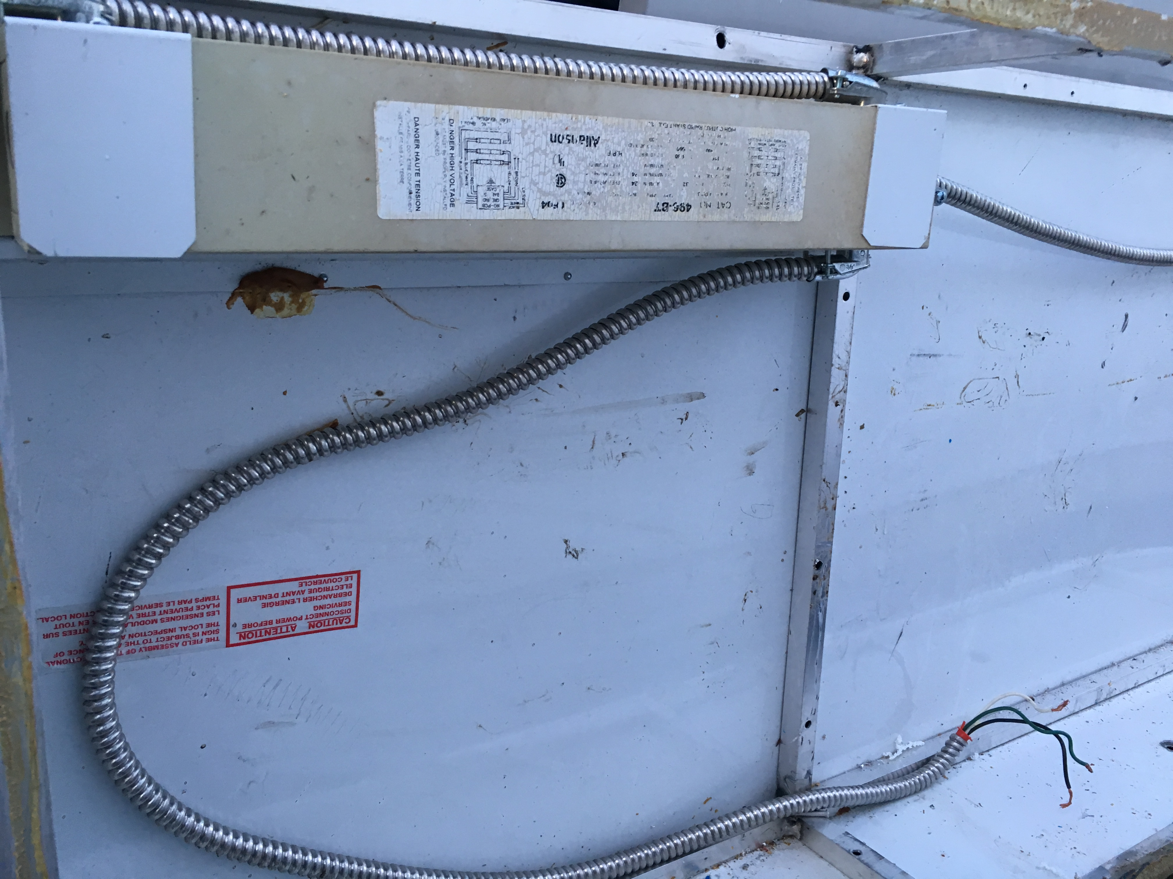 A decommissioned sign with ballast and cable remaining but without fluorescent tubes